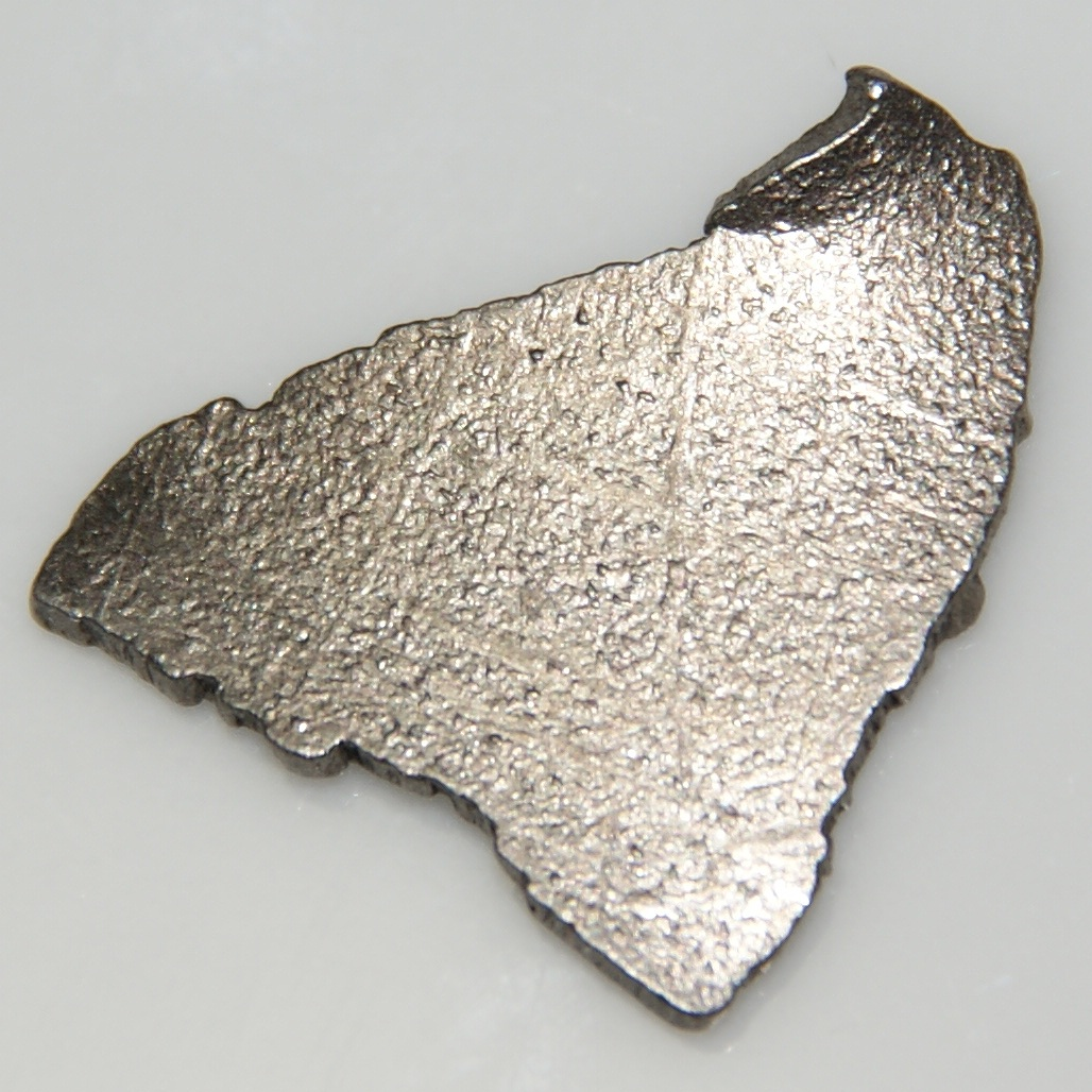 3 grams piece of cobalt